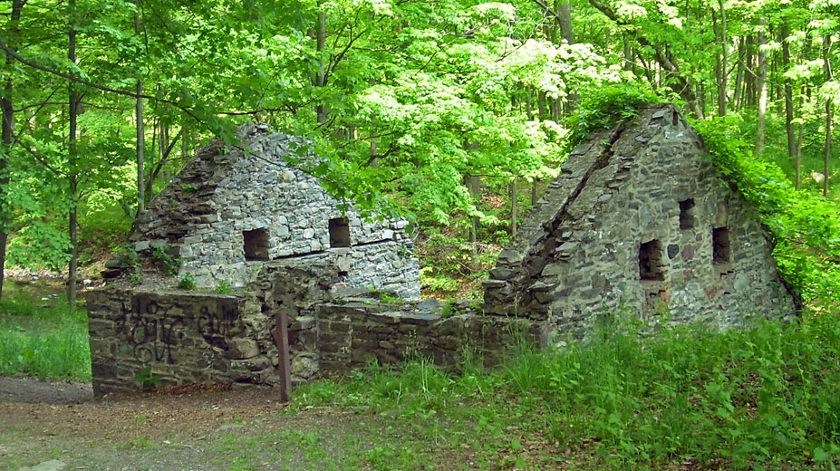 Photographed by Daniel Case 2007-05-25